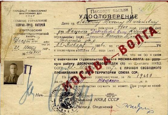 Document for the Gulag prisoner who worked on Moscow-Volga Canal building. The document is in Russian language. It confirms that this man worked very good and thus now NKVD allow him to live anywhere in the USSR.